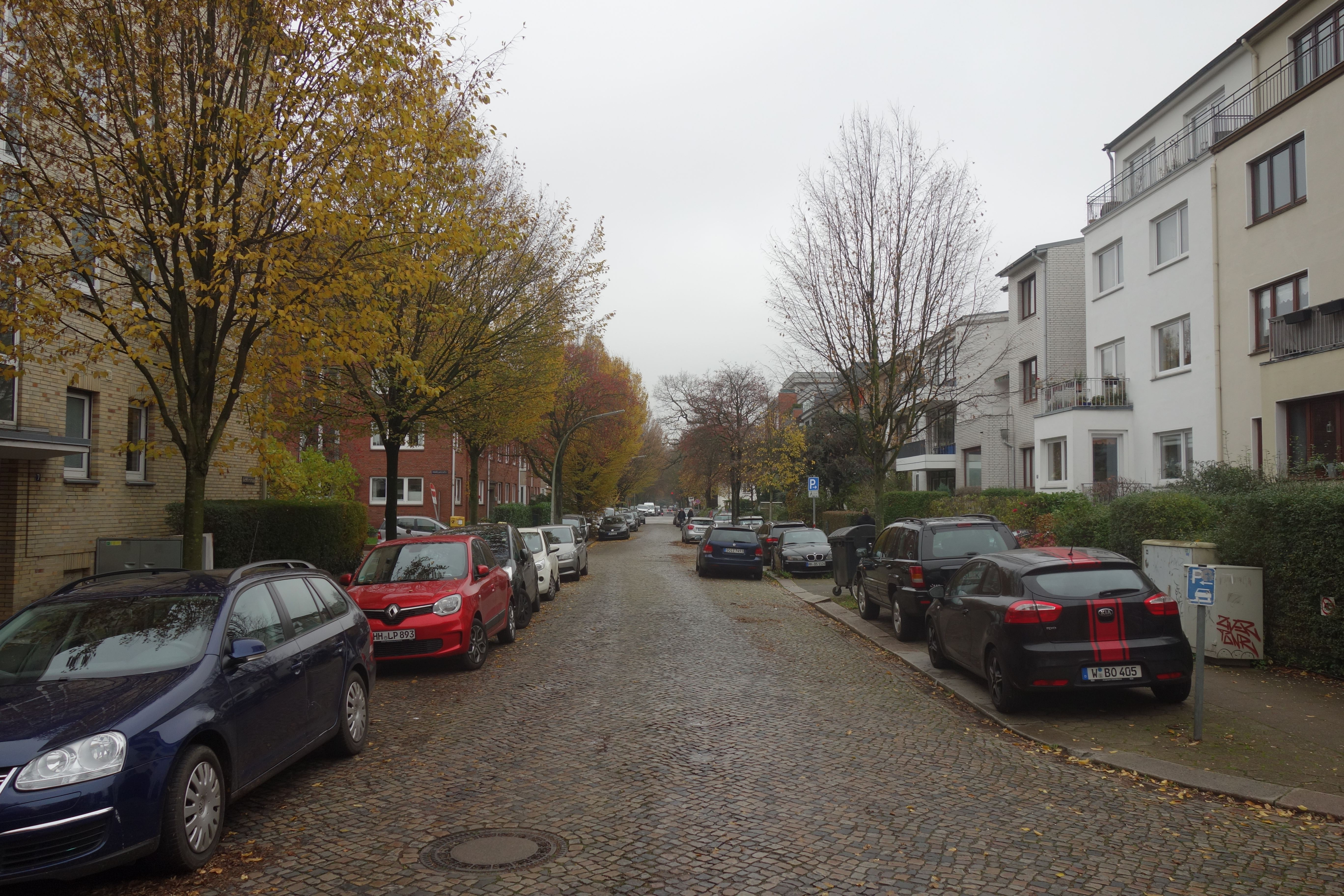 Street in Hamburg